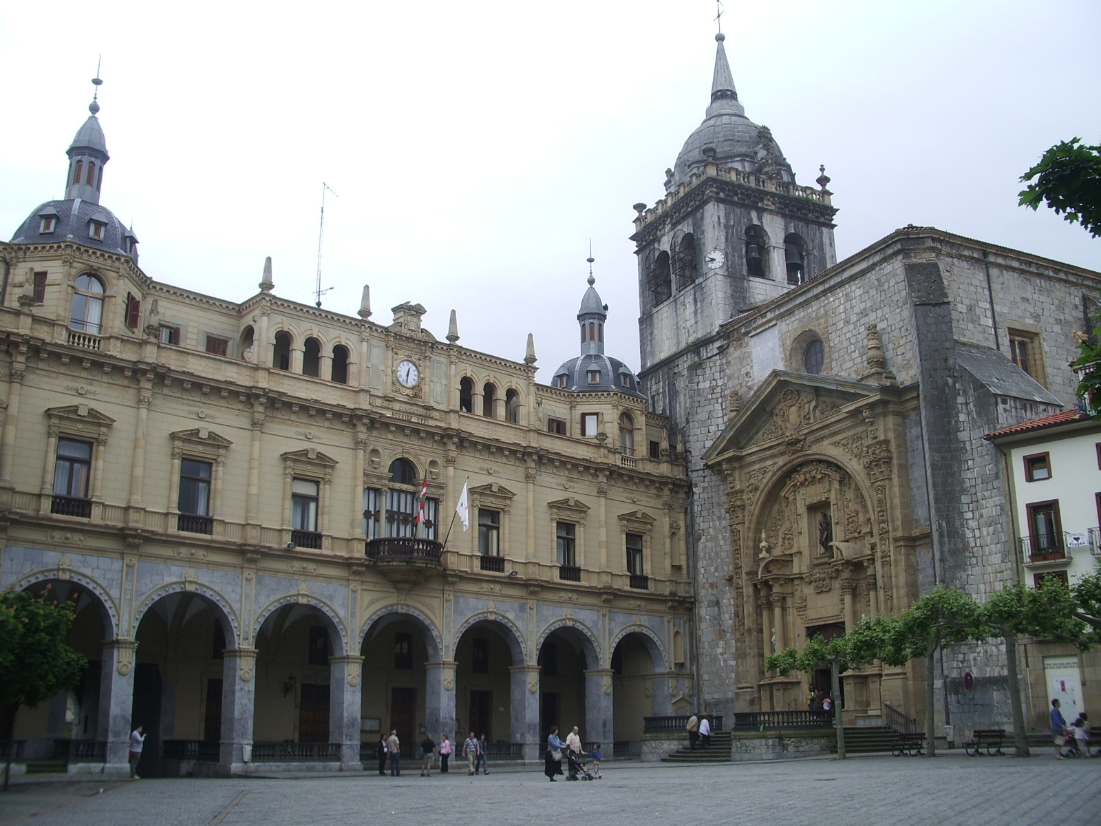 Church and Town Hall in Gudarien plaza, Hernani, Guipuscoa, Basque Country